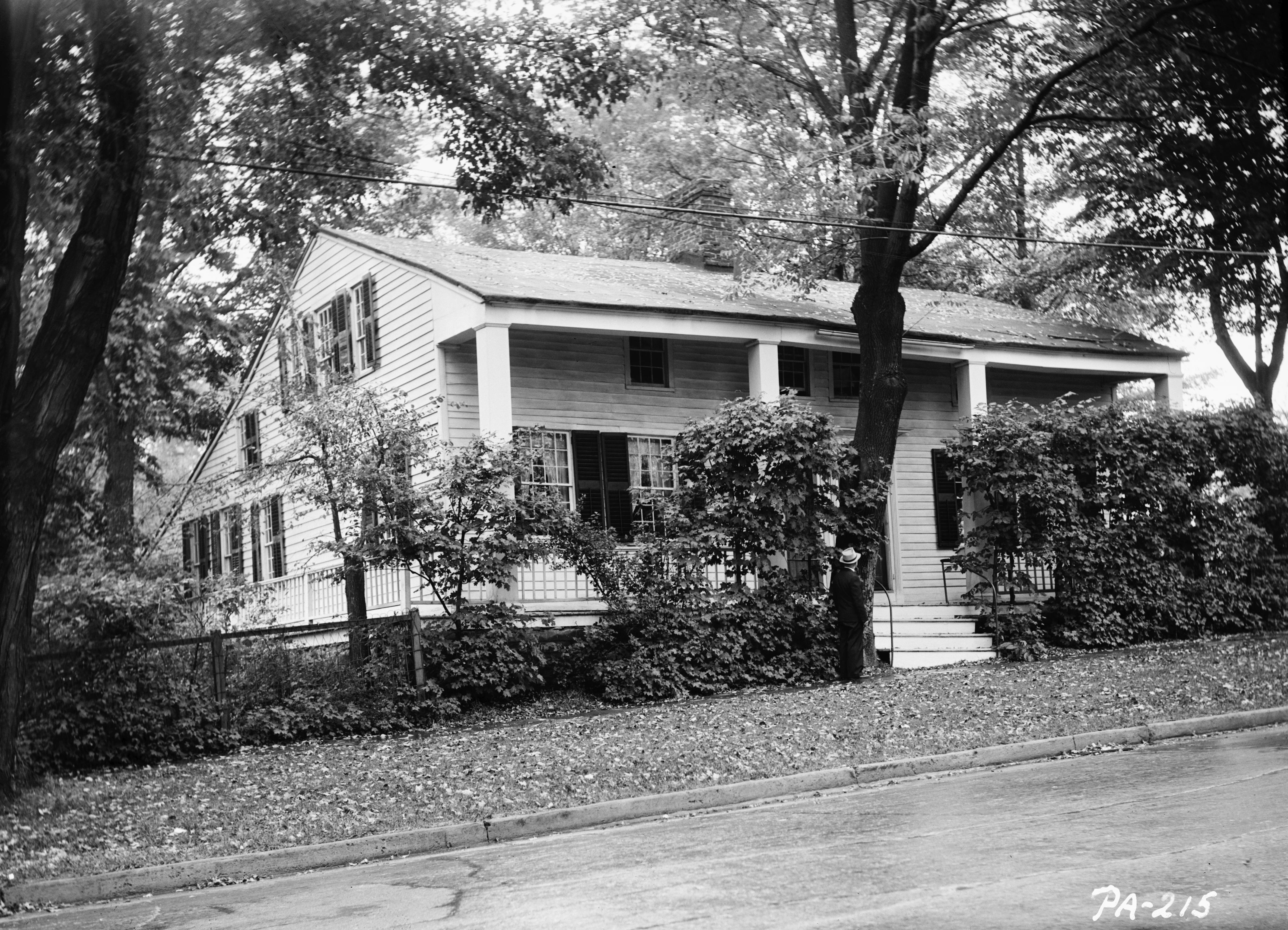 Front of the Sylvanus Mulford House, located at 65 Church Street in Montrose, Pennsylvania, United States. Built in 1818, it is listed on the National Register of Historic Places.